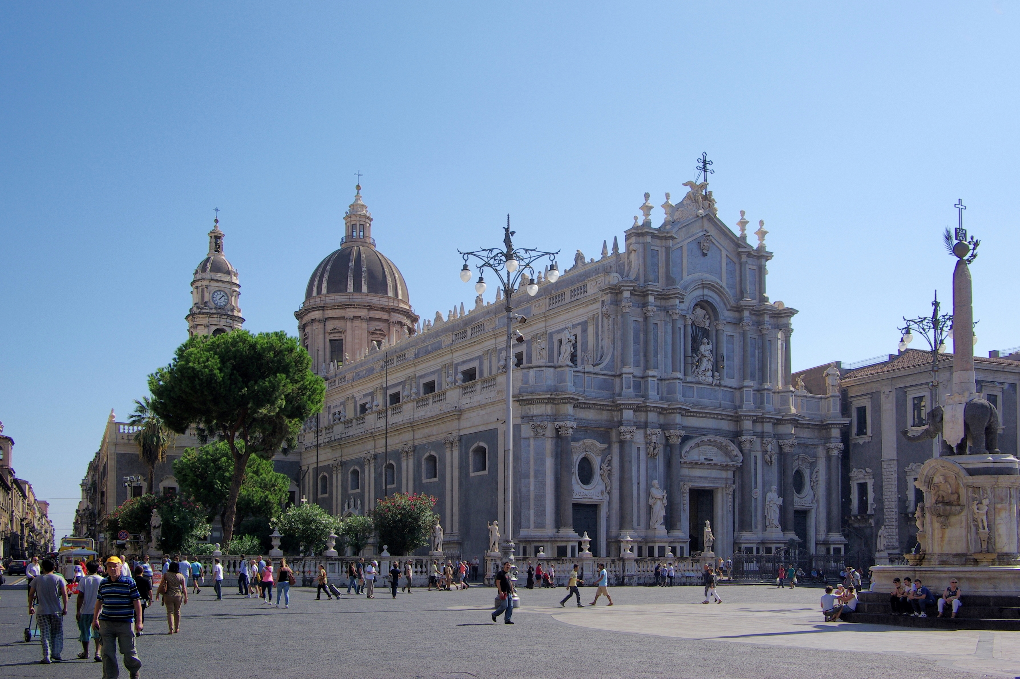 Italy, Sicily, Catanaia, cathedral Sant' Agata